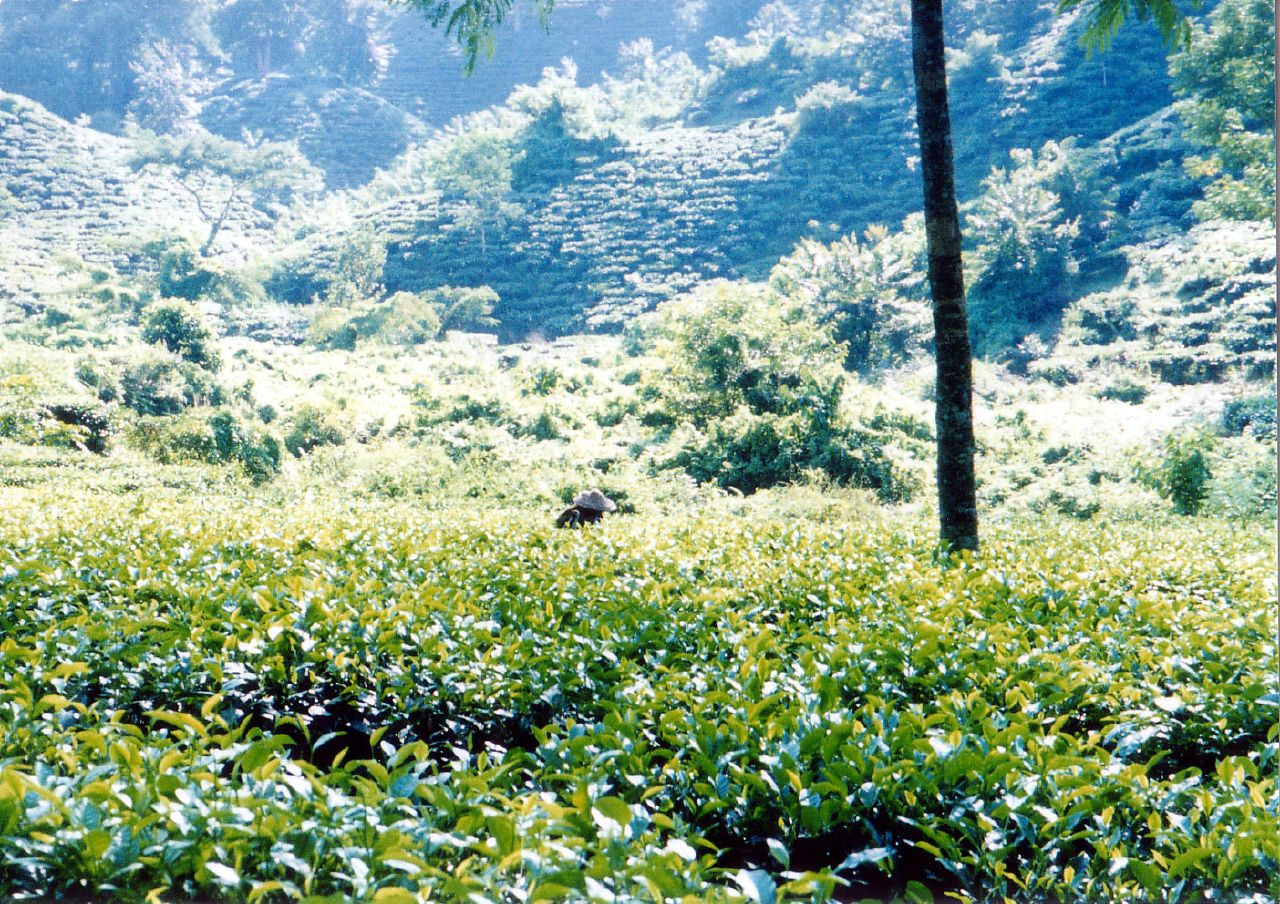 Tea gardens in Srimangal, just outside Kulaura Town.